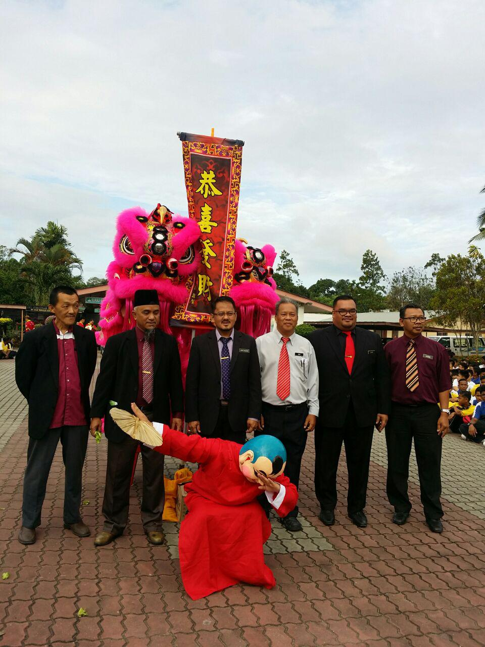 CNY 2